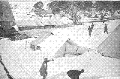 Snowball fight at Liawenee